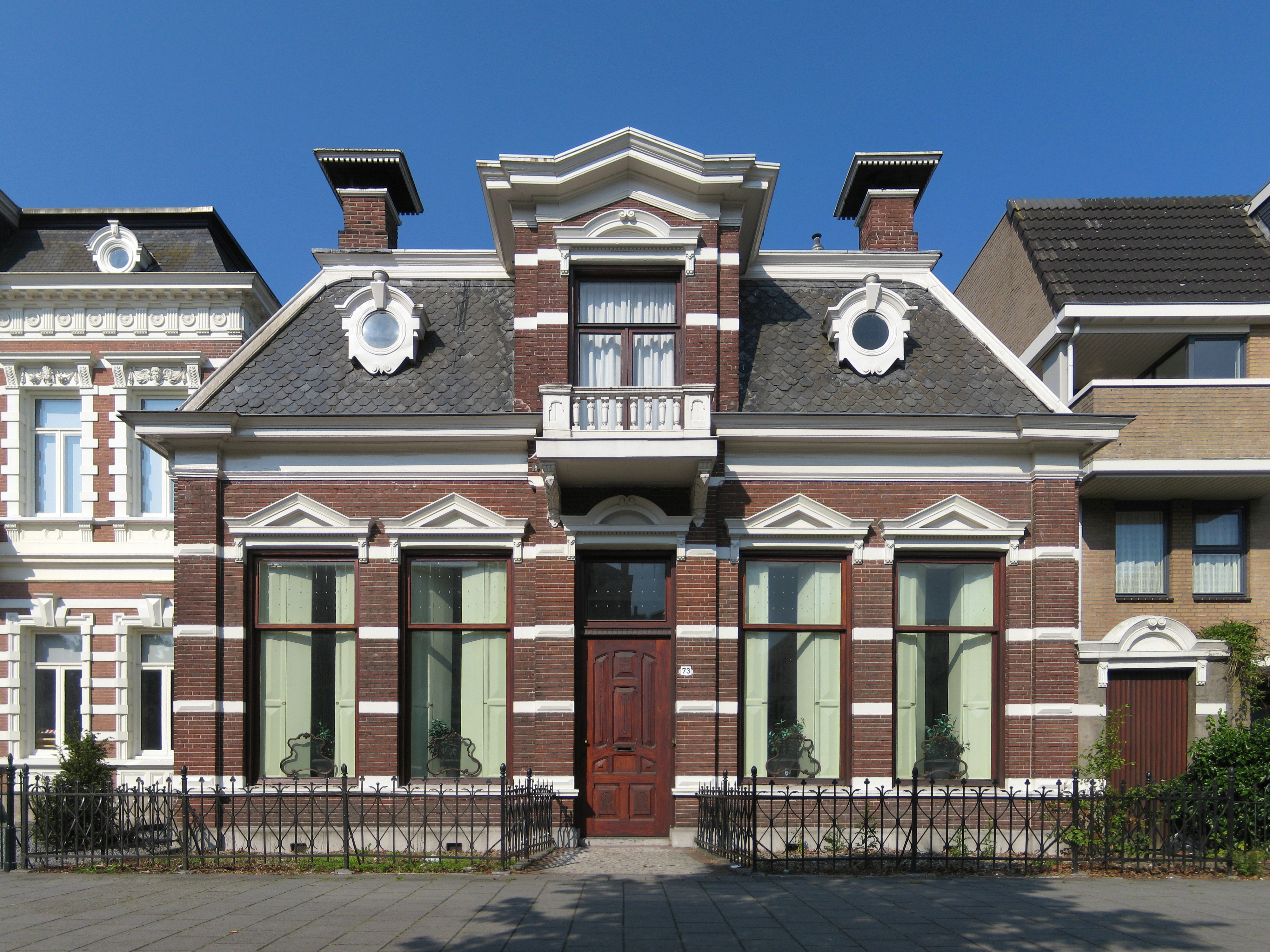 House (c. 1880) in the Dutch city of Groningen.